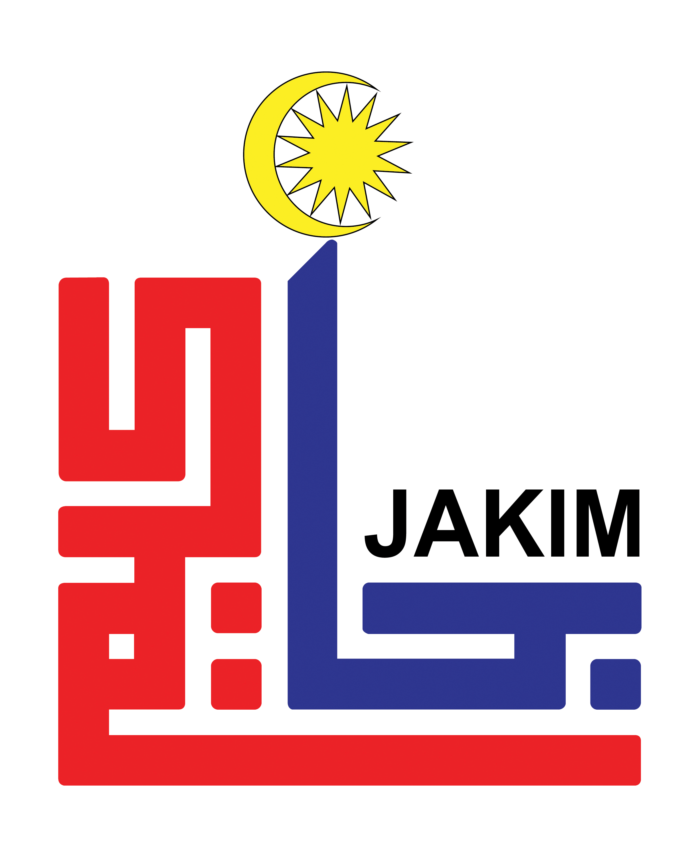 Jakim corporate logo